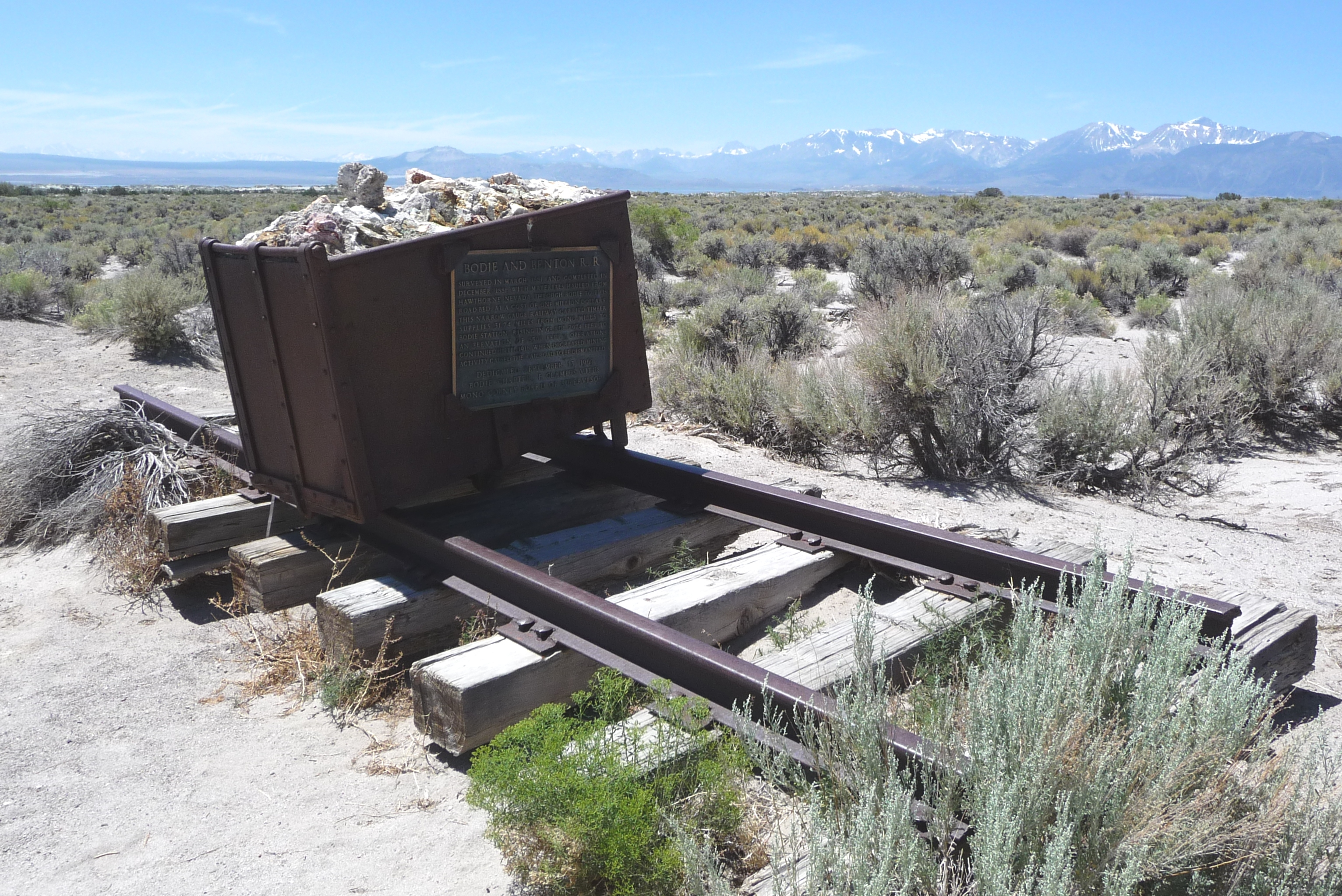 The Bodie and Benton Railway and Commercial Company historical monument, in Mono County, eastern California. Located near the eastern shore of Mono Lake with the Eastern Sierra in backround. The rail line ran between Mono Mills and Bodie until 1914.